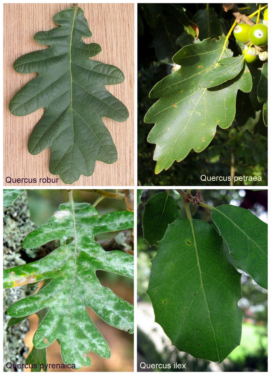 Leaves of Quercus robur, petraea, ilex and pyreneica